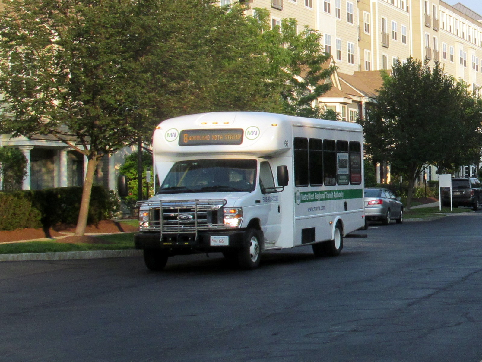 A MetroWest Regional Transit Authority bus at Woodland station in September 2015